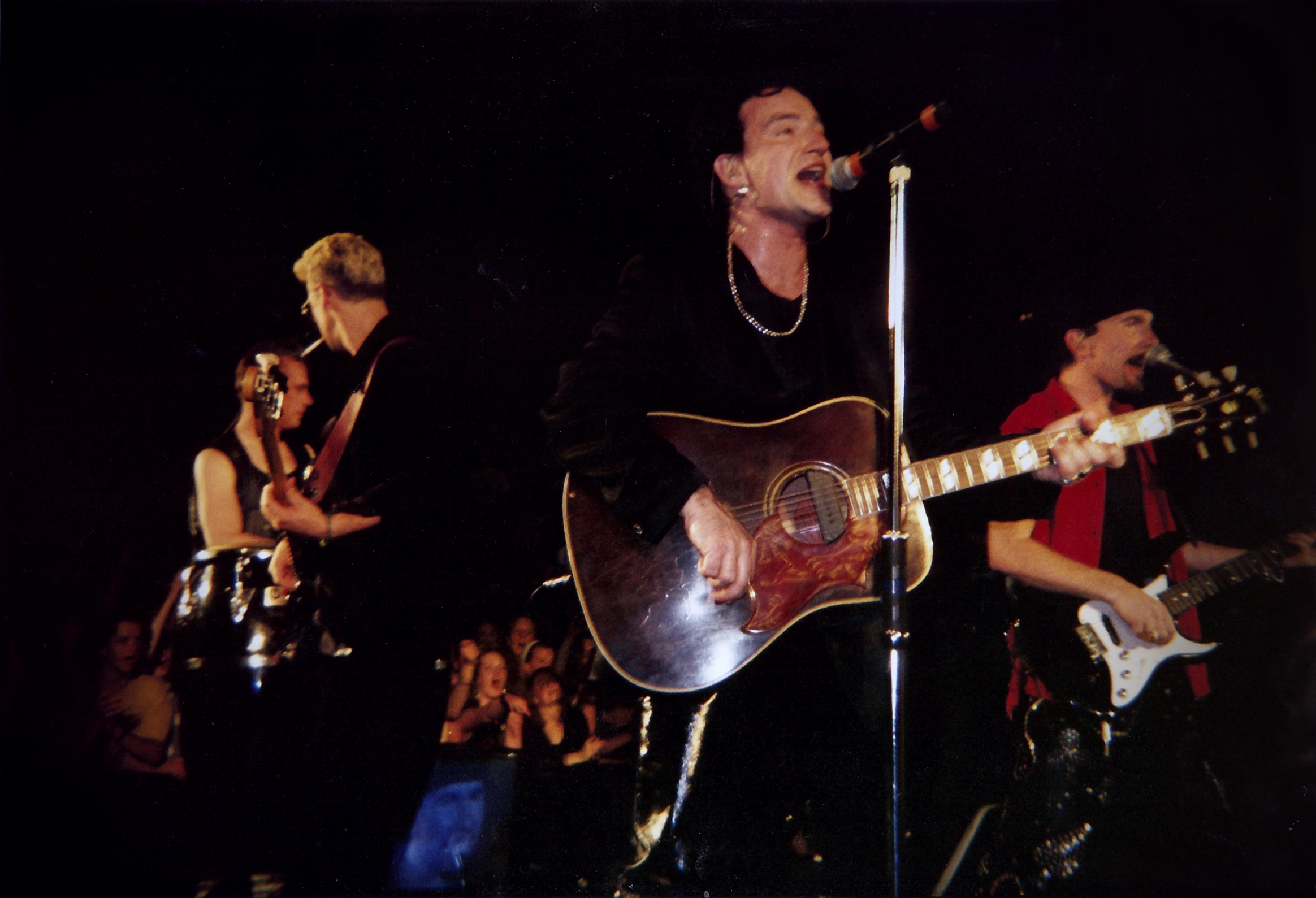 U2 performing at the Ostseehalle in Kiel, Germany, on June 13, 1992, on their Zoo TV Tour